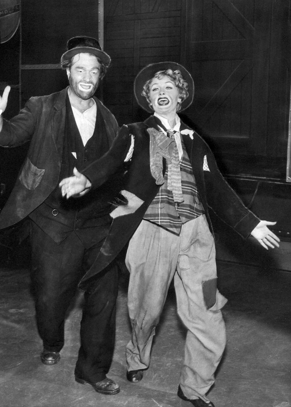 Photo of Red Skelton and Lucille Ball from the television program The Lucy-Desi Comedy Hour. This episode is "Lucy Goes to Alaska". The Ricardos and Mertzes travel to Alaska where Lucy winds up doing a show with Red Skelton.